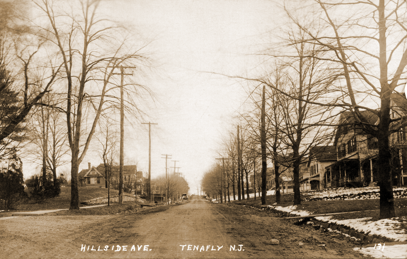 Black and white photo postcard of Hillside Avenue, Tenafly, New Jersey. The front has "131" on it. The back is divided and reads "This is a genuine photograph. Pub. by the Ess an Ess Photo Co., 114 Fifth Avenue, N. Y. C." It bears a cancelled one-cent stamp of George Washington